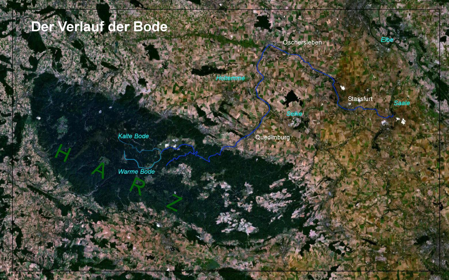 River system of the Bode (Germany), based on World Wind